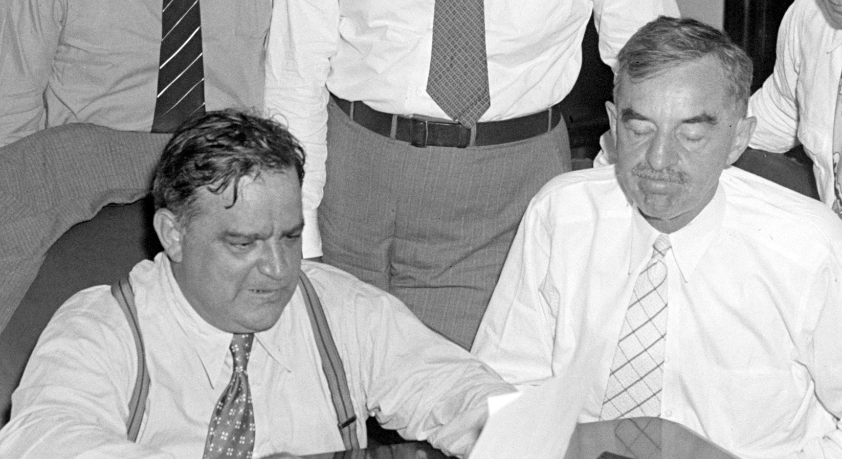 Daniel Hoan (right), Mayor of Milwaukee, and Fiorello LaGuardia, Mayor of New York City